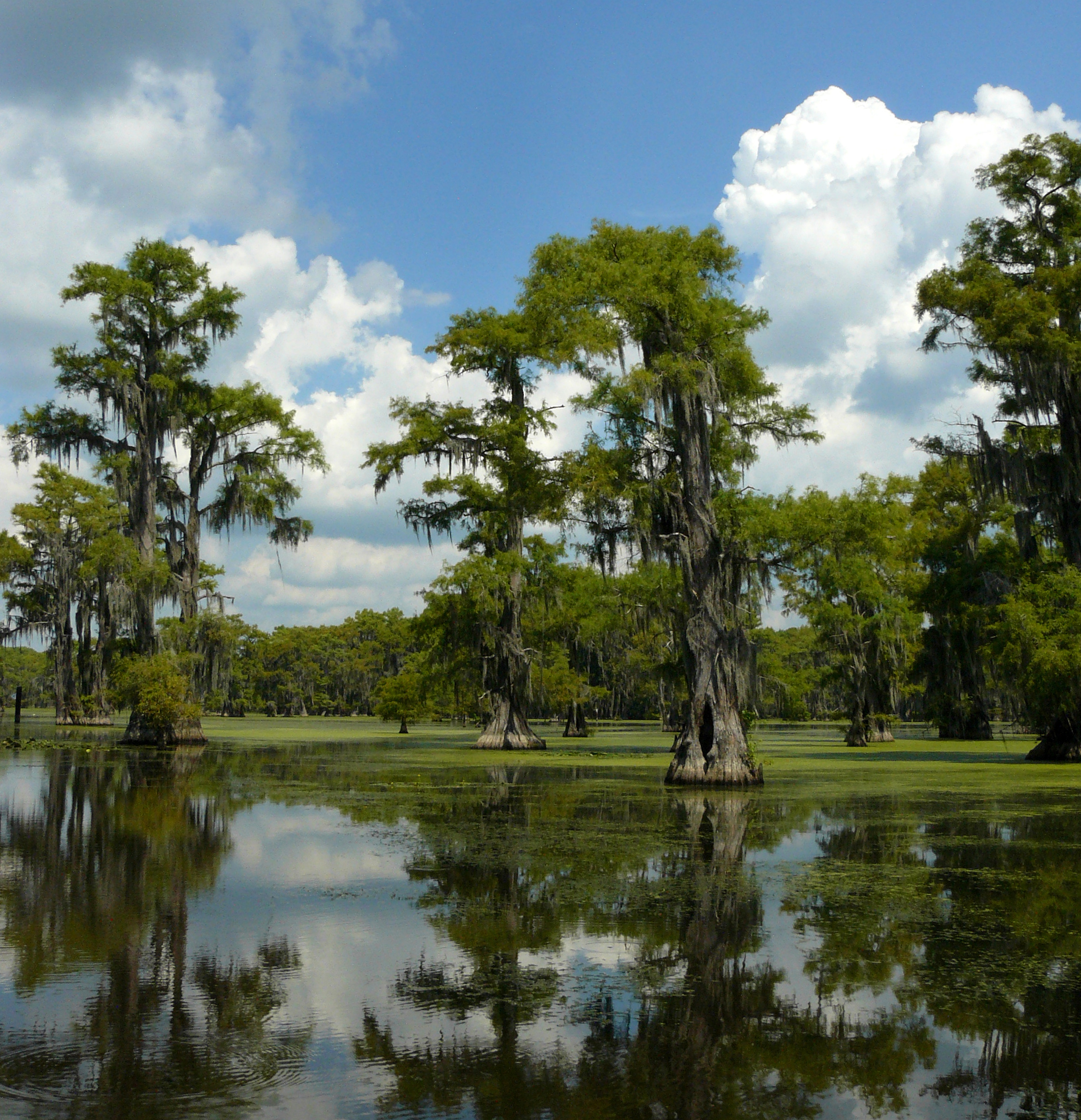 Taxodium distichum (bald cypress) trees — in Caddo Lake, Texas.